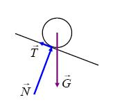 Simple model of forces